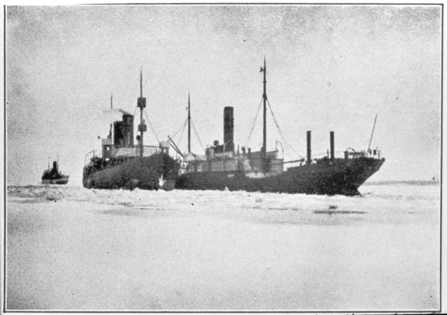 Finnish icebreaker Sampo (built in 1898) assisting cargo steamer Castor during the Finnish Civil War in February 1918.